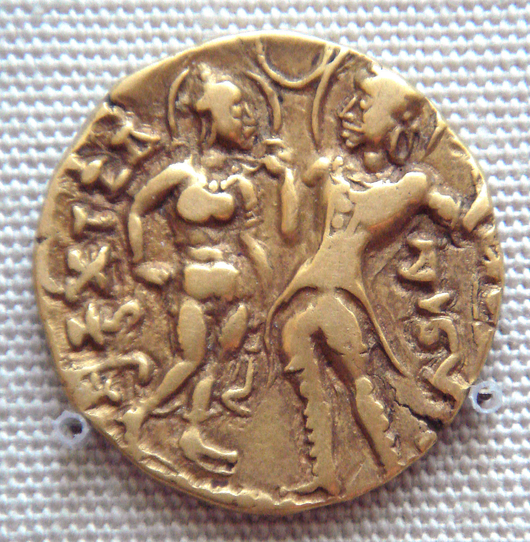 A gold coin depicting Queen Kumaradevi and King Chandragupta I. Numismatist John Allan believed these coins were issued by their son Samudragupta to commemorate his parents, but the later scholars have attributed the issue of these coins to Chandragupta I. See Chandragupta I#Coinage and Samudragupta#Coinage on English Wikipedia.